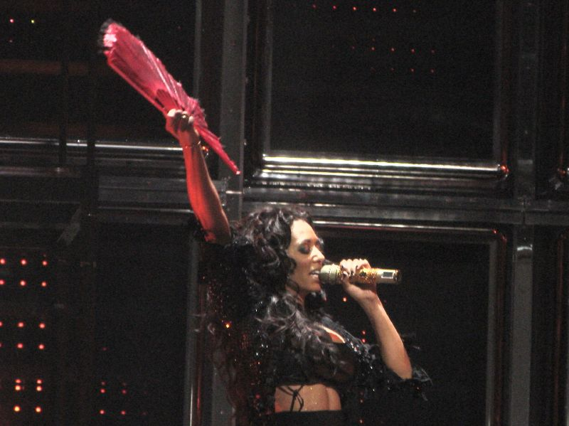 Scary Spice from LV ConcertIMG_0272